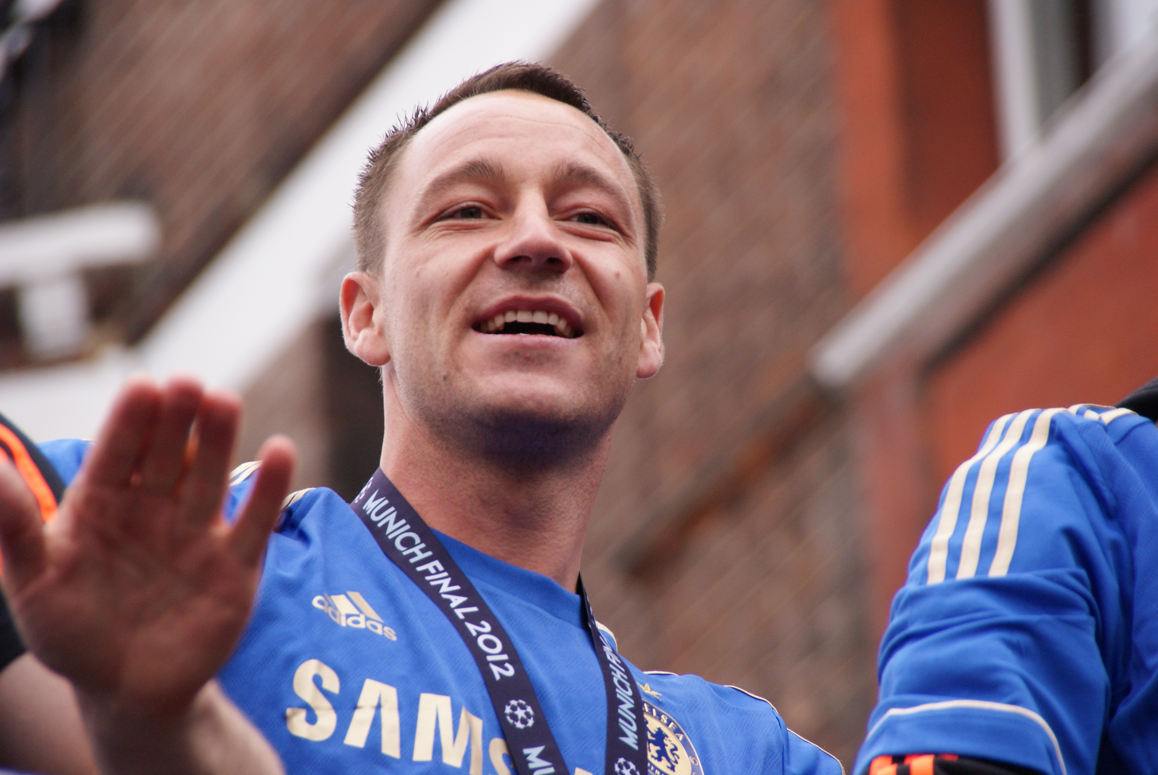 This photo was taken on Sunday 20th May 2012 during the Chelsea Football Club Parade following Chelsea's victory in the European Champions League Final.